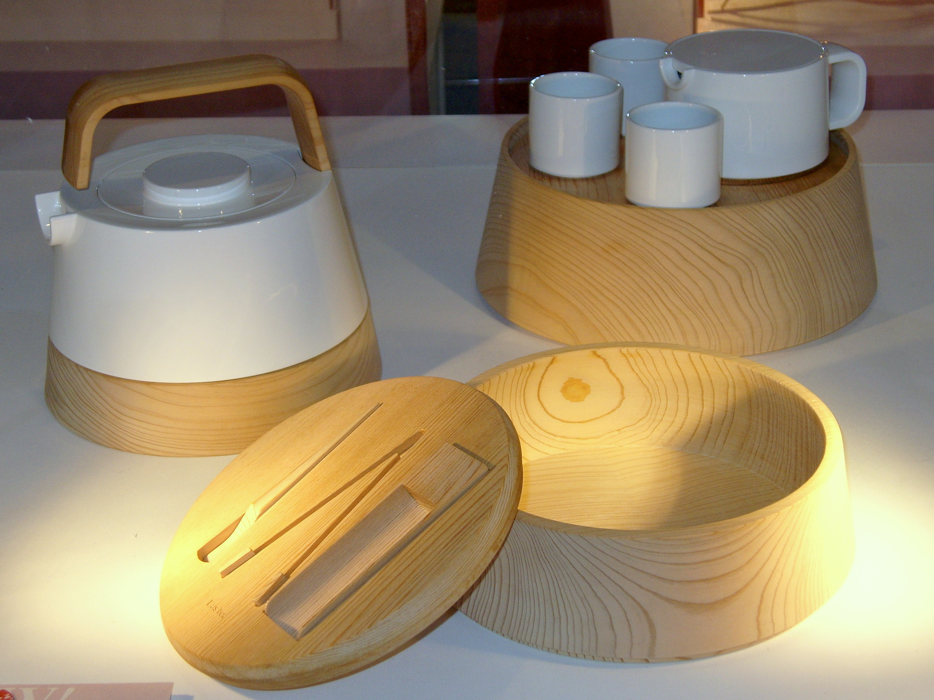 2008 Young Designers' Exhibition - Wow Taiwan Design Award: EasTea / WesTea.